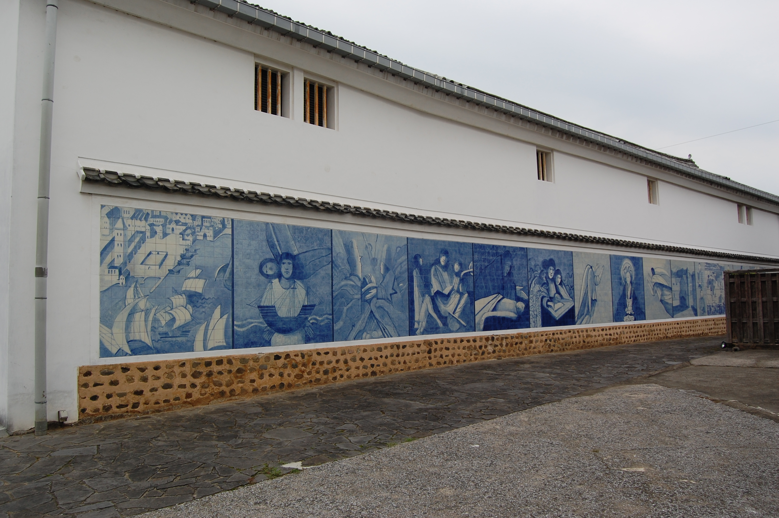 Tile decoration by Rogerio Ribeiro in Usuki, Japan